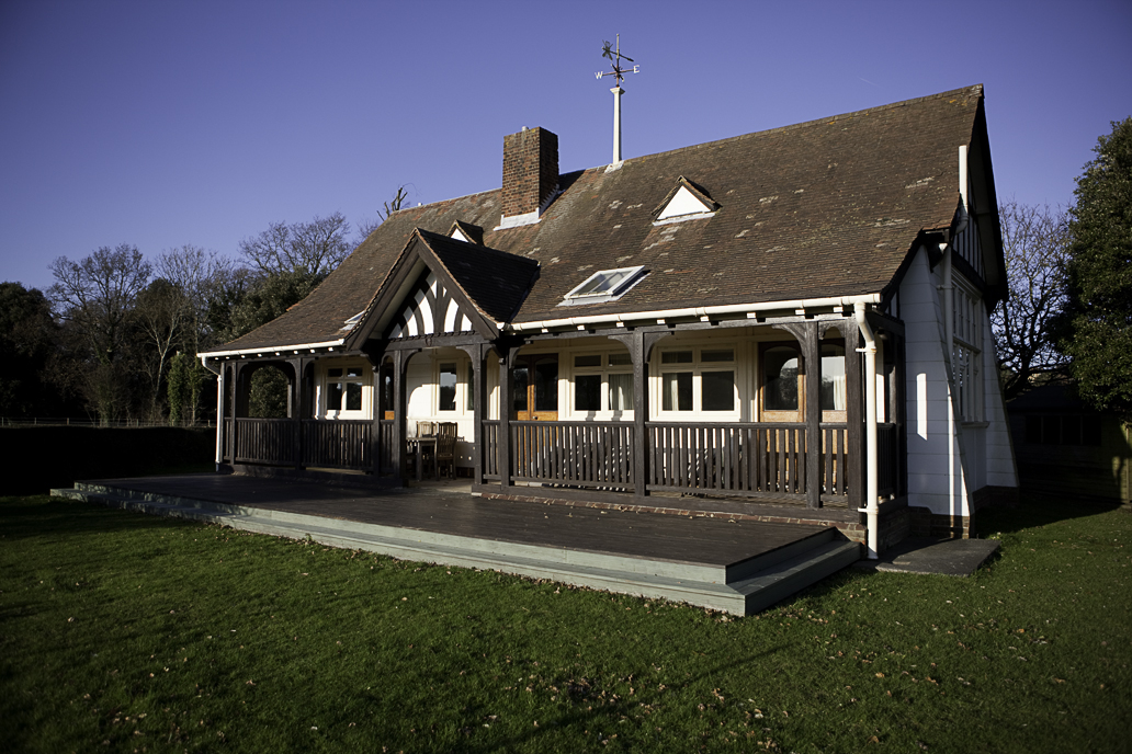 The Cricket Pavilion at Osborne House on the Isle of Wight